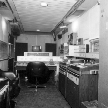 Photo taken by Cantos Music Foundation